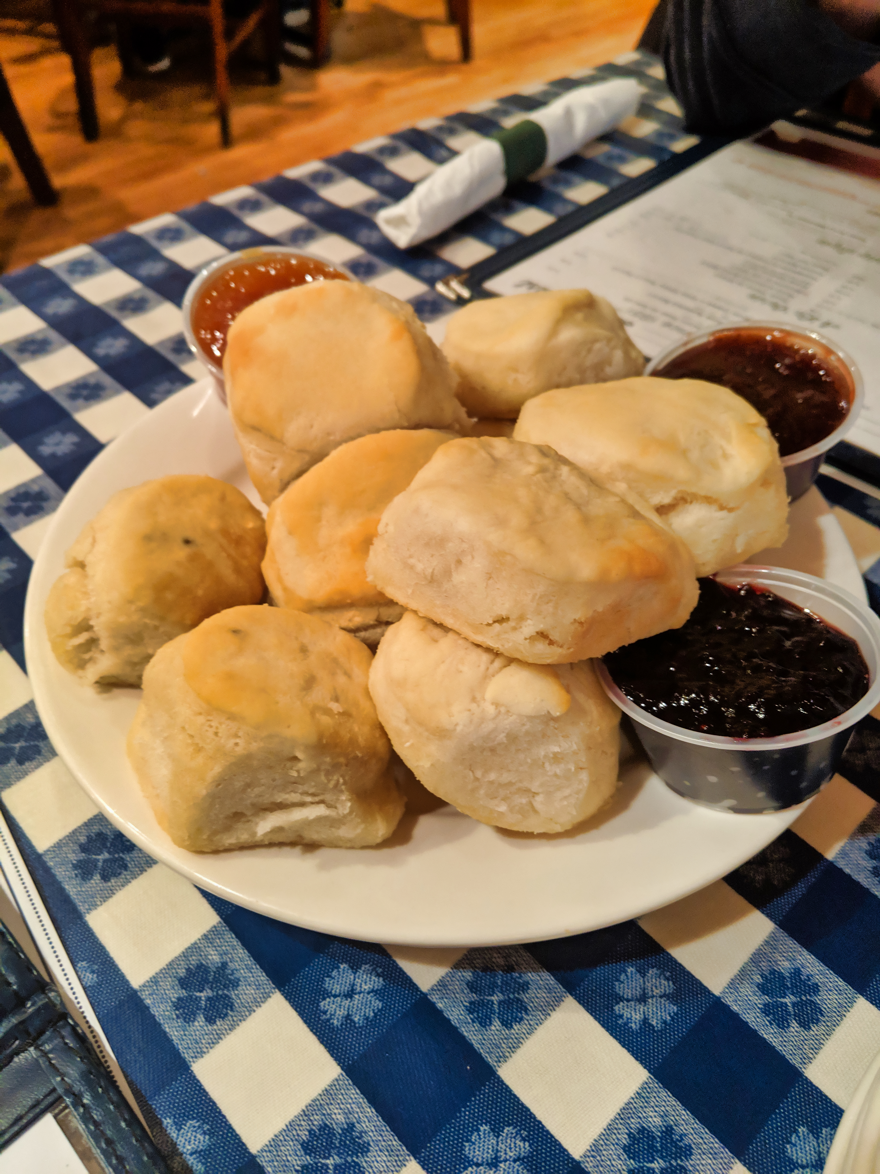 Biscuits at Loveless Cafe in Nashville, Tennessee